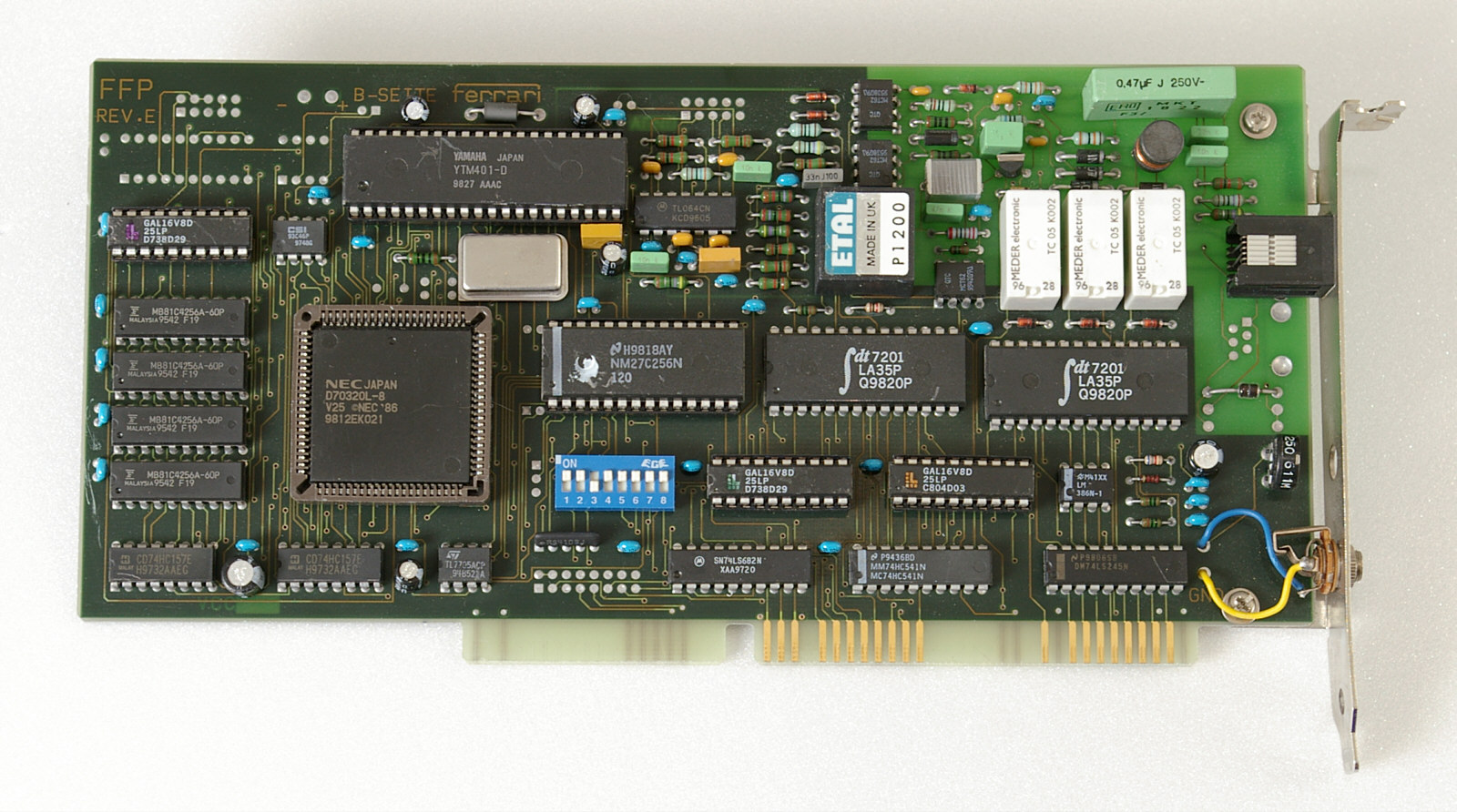 Ferrari fax modem for ISA bus